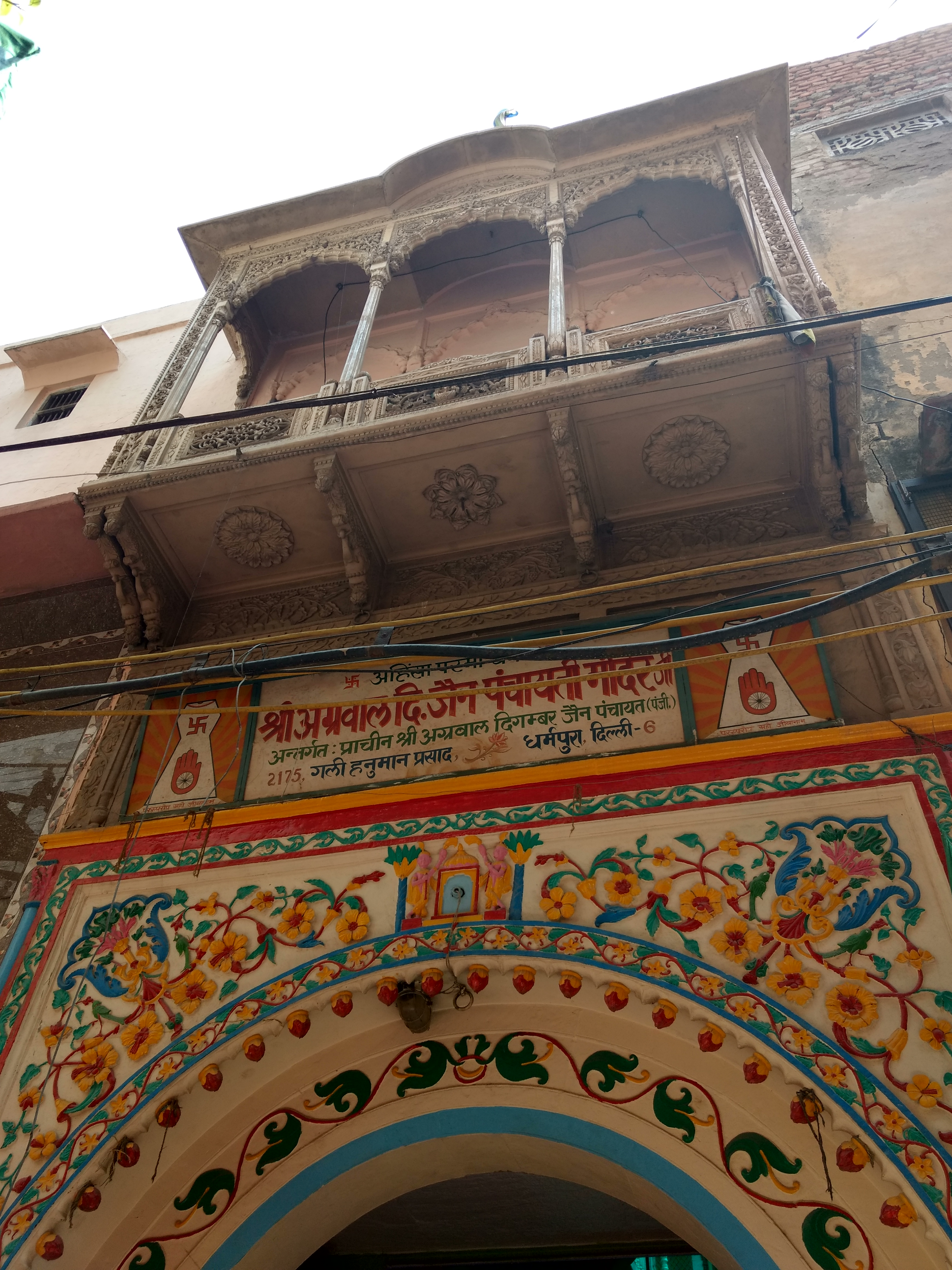 Panchayati Mandir, Dharampura, Chandni Chawk